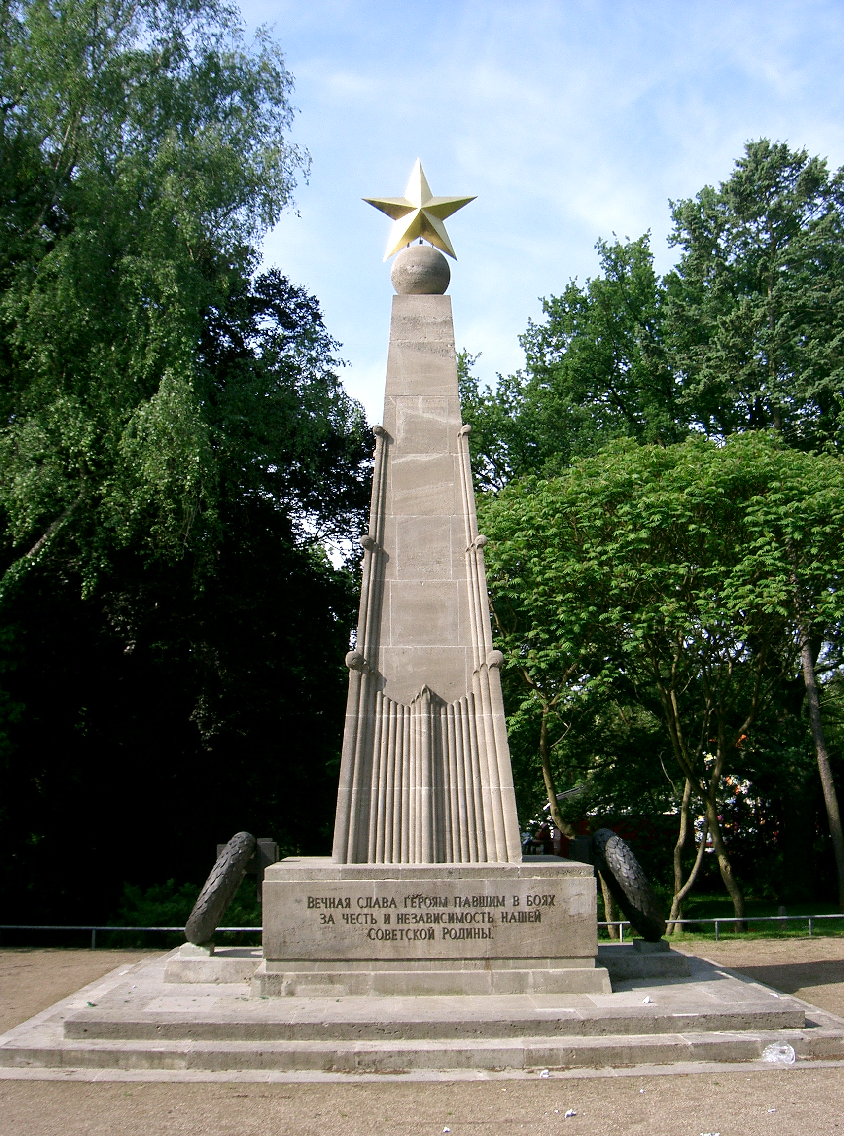 Obelisk on the cemetery for the dead soldiers of the red army in Bernau bei Berlin.